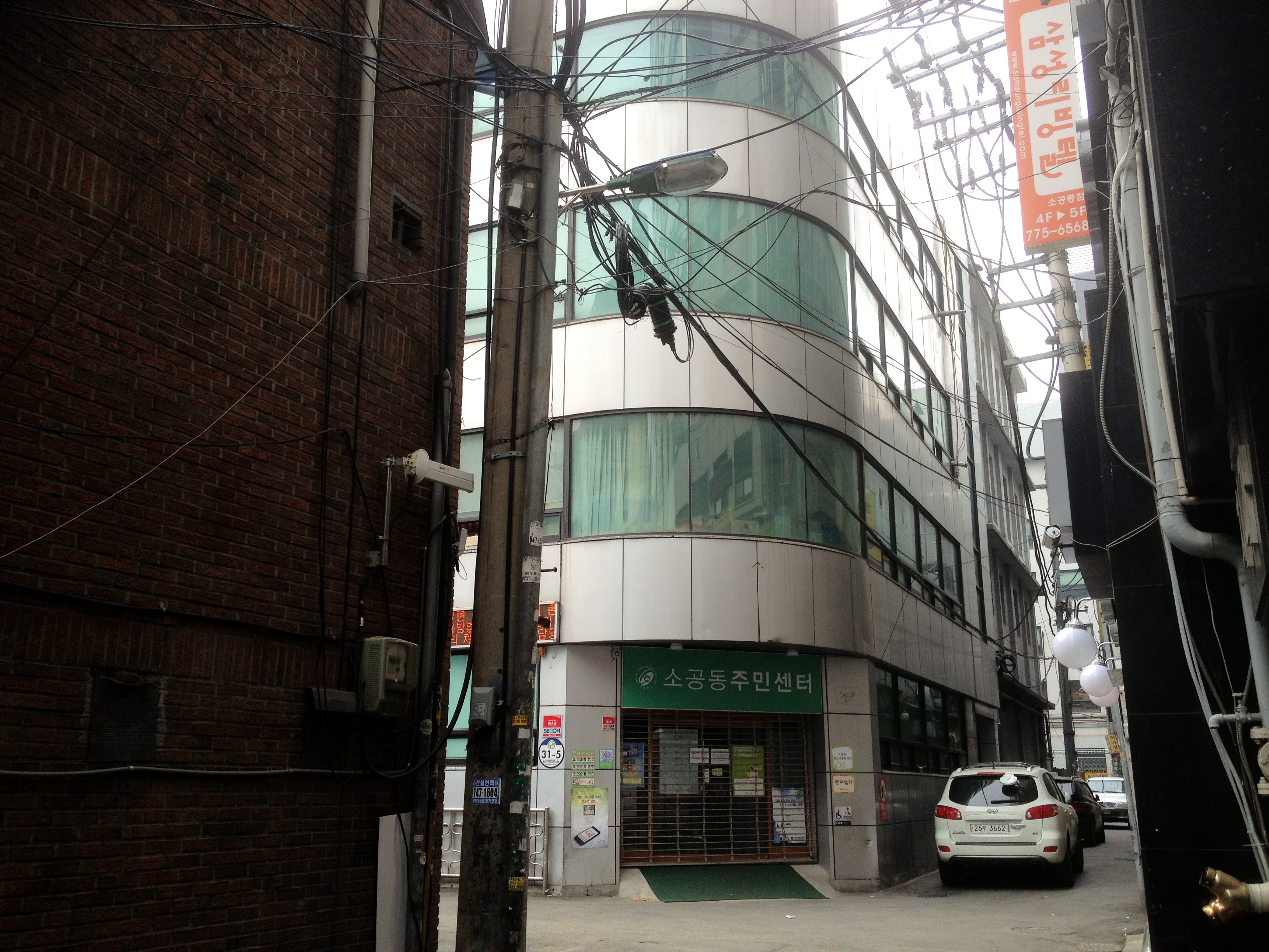 Sogong-dong Comunity Service Center(Jung-gu)